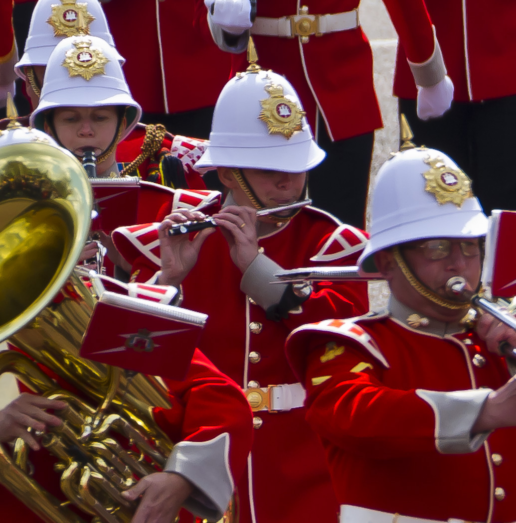 Royal Gibraltar Regiment, Changing the Guard, Band, April 12 2012